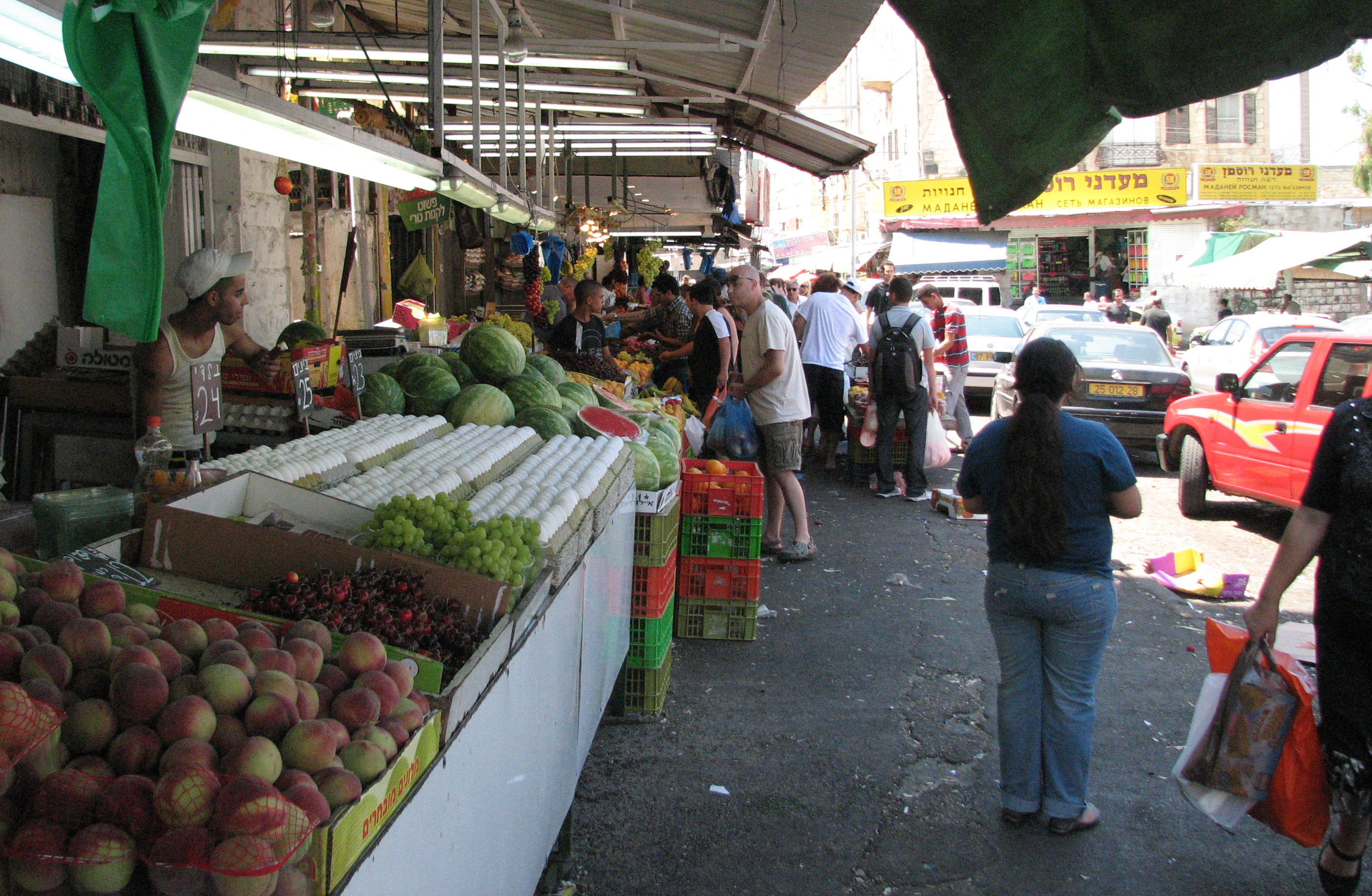 An afternoon scene at Talpiyot Market, Hadar, HFA.